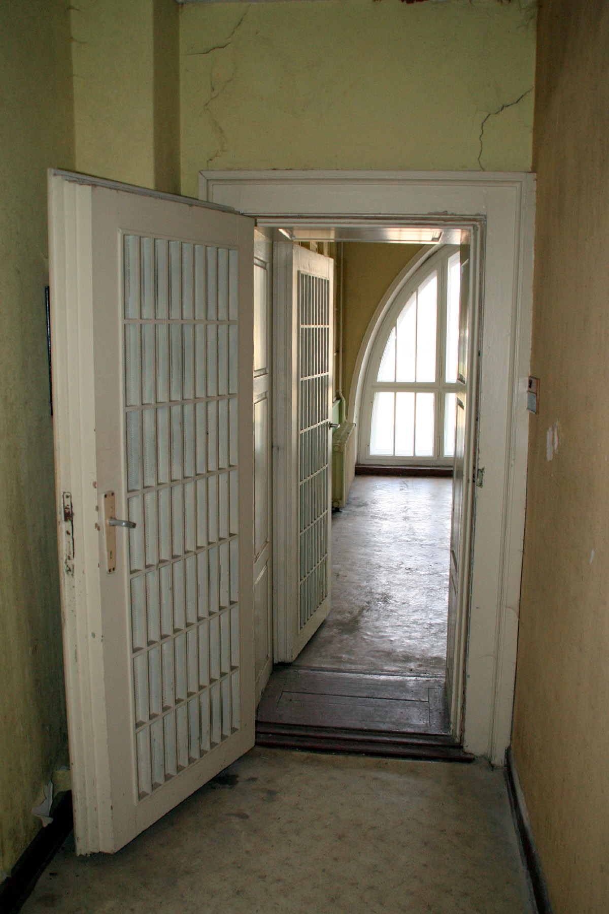 Former broadcasting center Berlin-Gruenau, soundproof doors